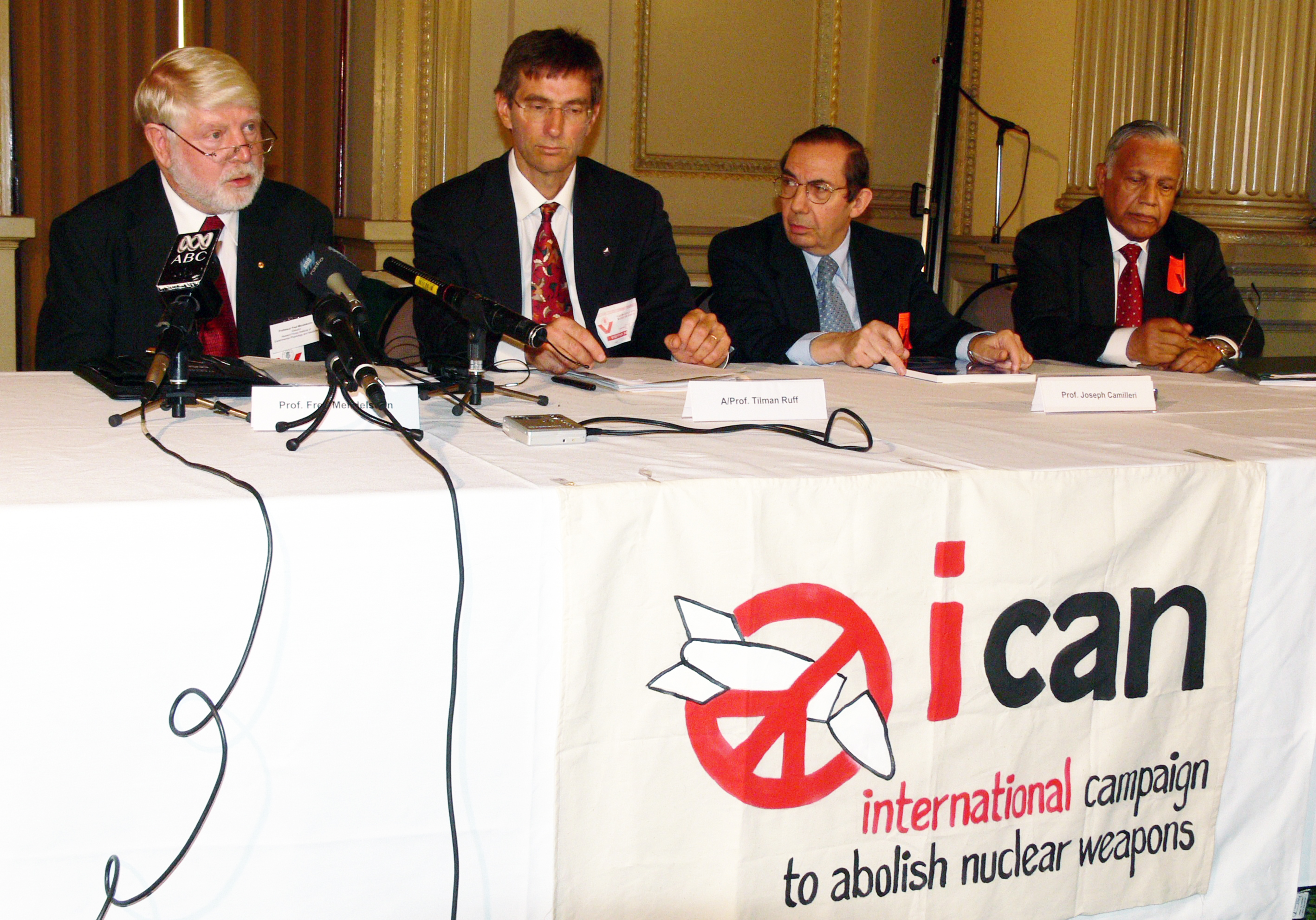 The launch of the International Campaign to Abolish Nuclear Weapons (ICAN) in Melbourne, Australia, on 23 April 2007. Left to right: Fred Mendelsohn, Tilman Ruff, Joseph Camilleri and Christopher Weeramantry. Credit: Adam Dempsey